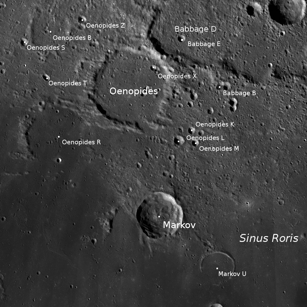 Moon craters Oenopides and Markov with satellite features (north at top; detail of LROC - WMS image map)